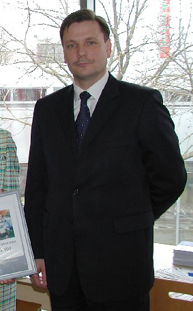 Estonian politician Jaanus Tamkivi: Mayor of Kuressaare, later member of the Riigikogu and Minister of the Environment.